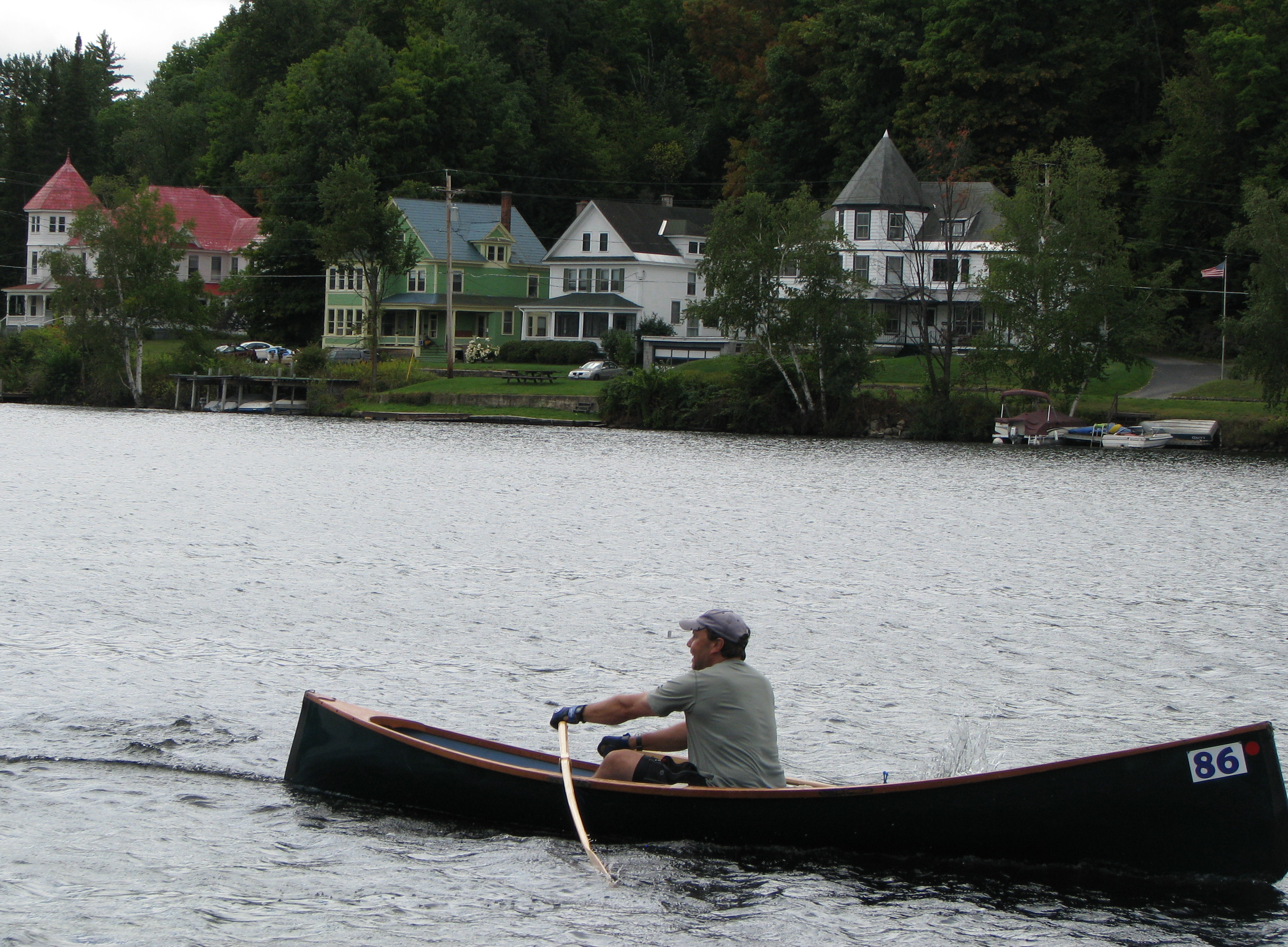 Guideboat, Adirondack Canoe Classic, Saranac Lake, NY.jpg